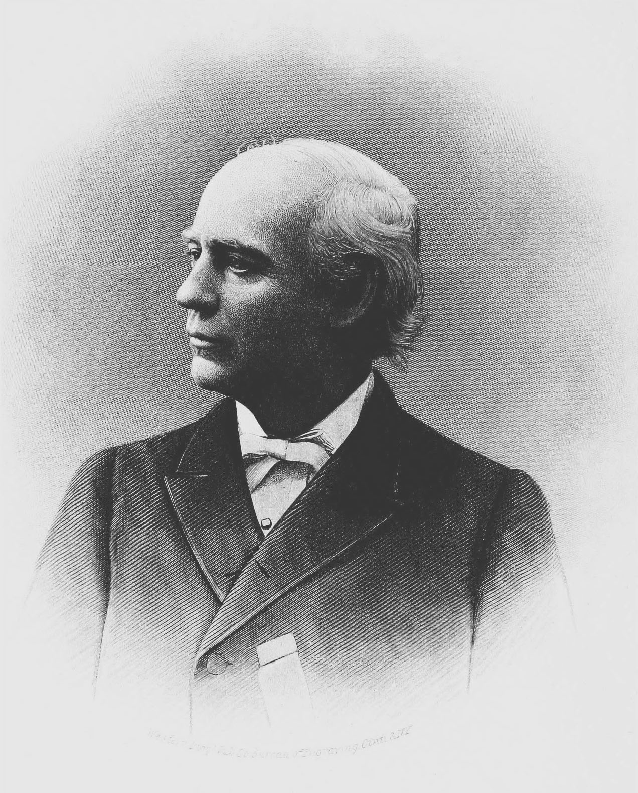 Engraved portait of U.S. geologist Edward Francis Baxter Orton, the first president of Ohio State University.